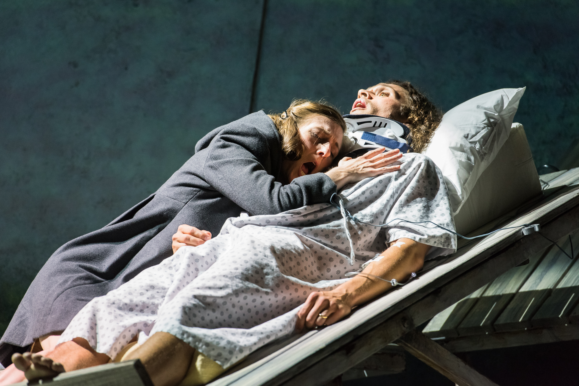 September 20, 2016 Kimmel Center Philadelphia, PA Photo by Steven Pisano.